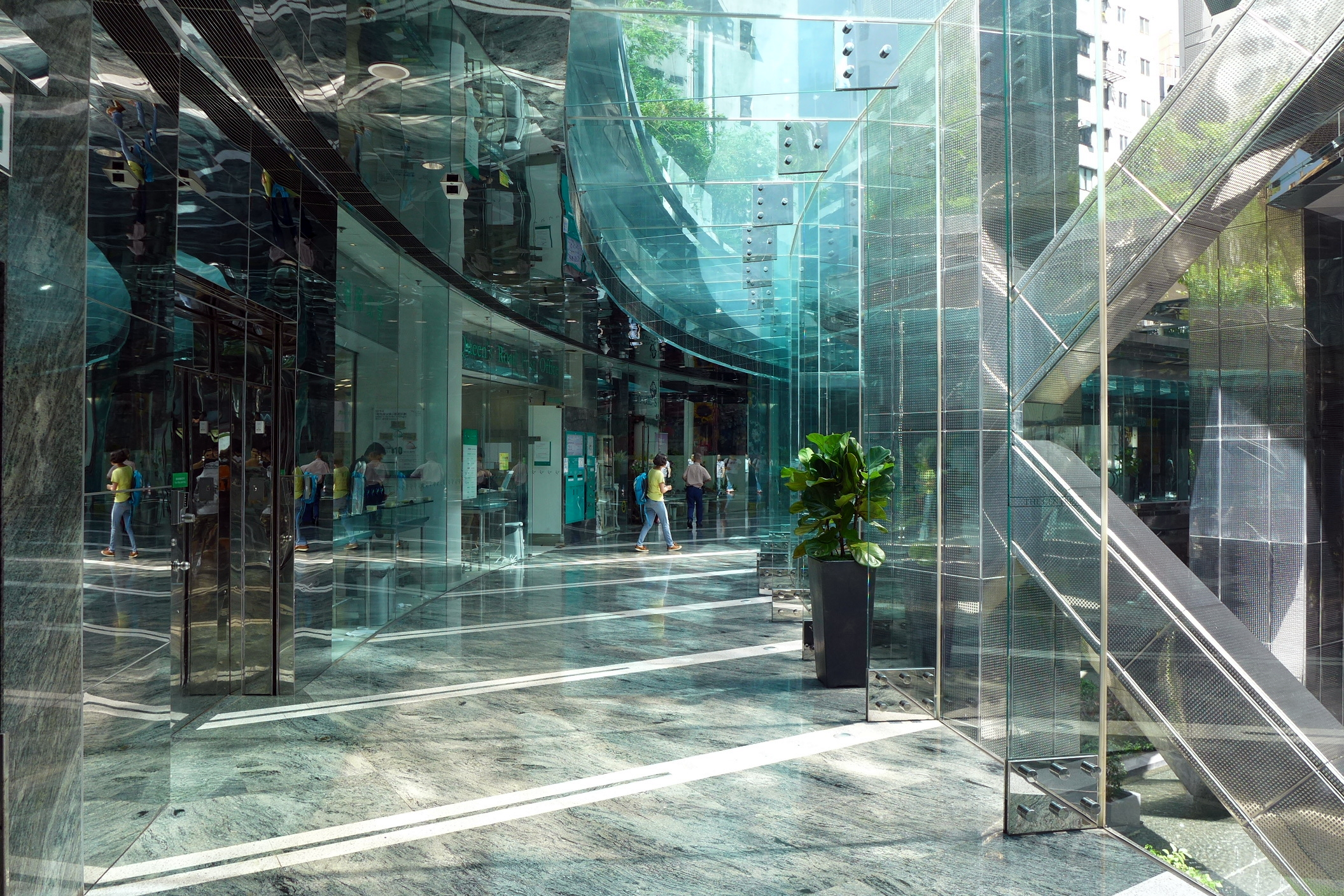 The Center Access